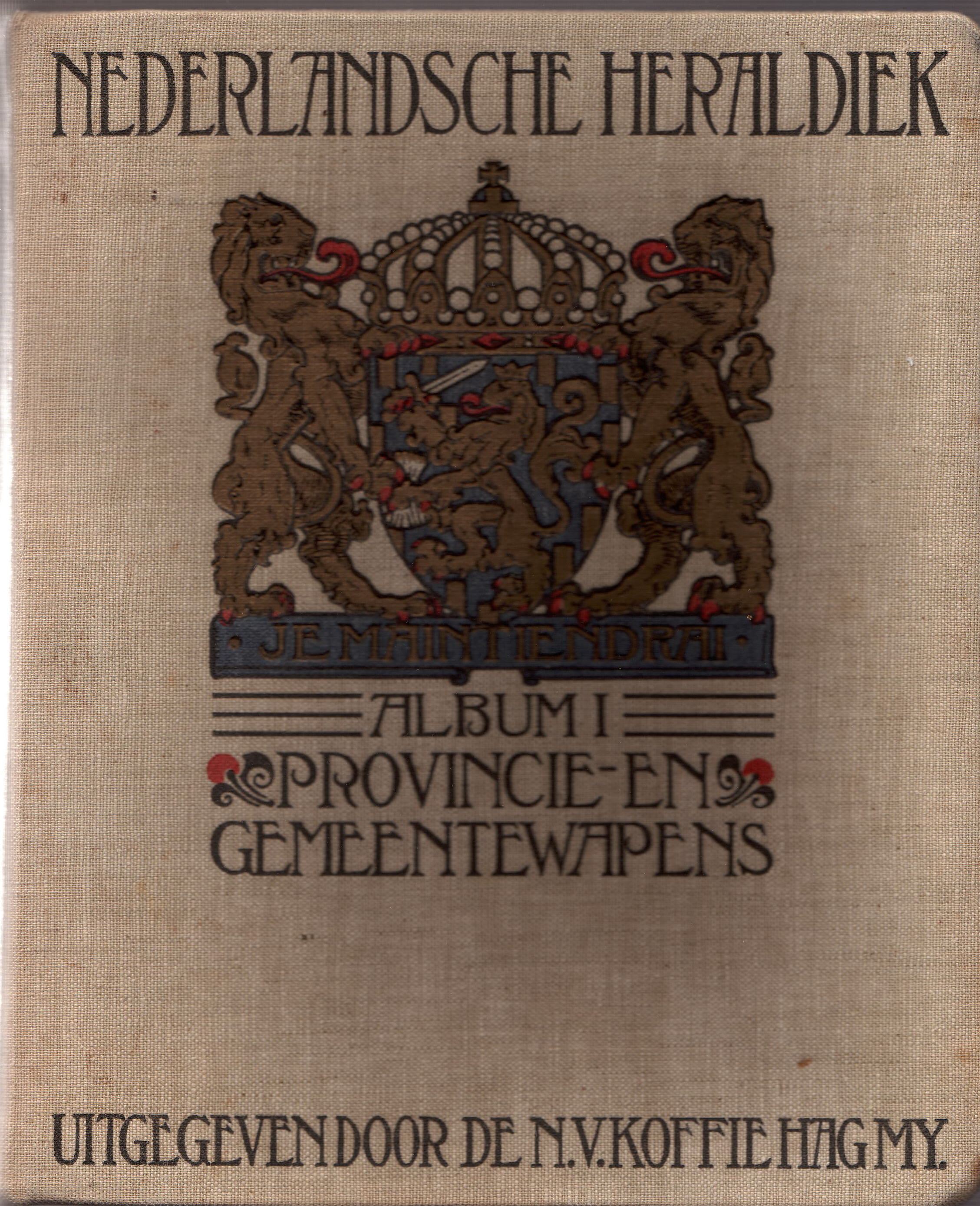 Title page of book Coffee Hag Albums